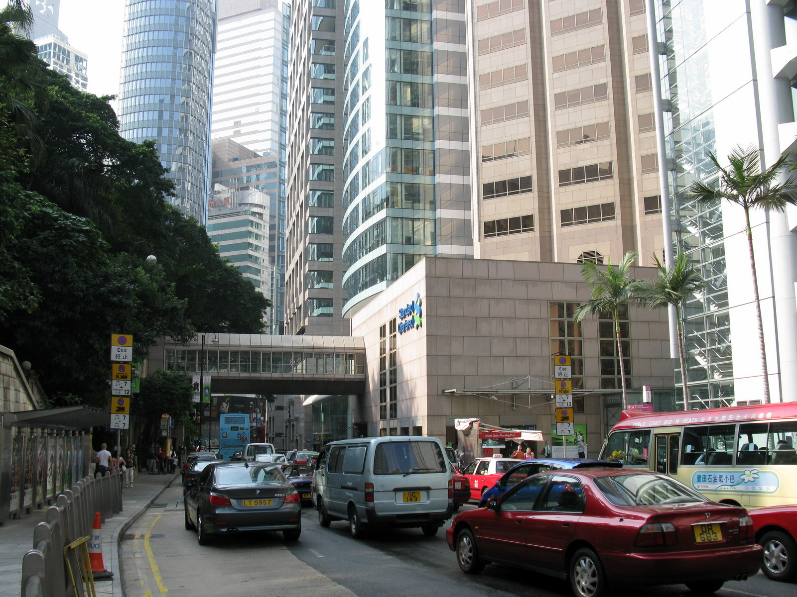 Queen's Road Central, view towards Ice House Street